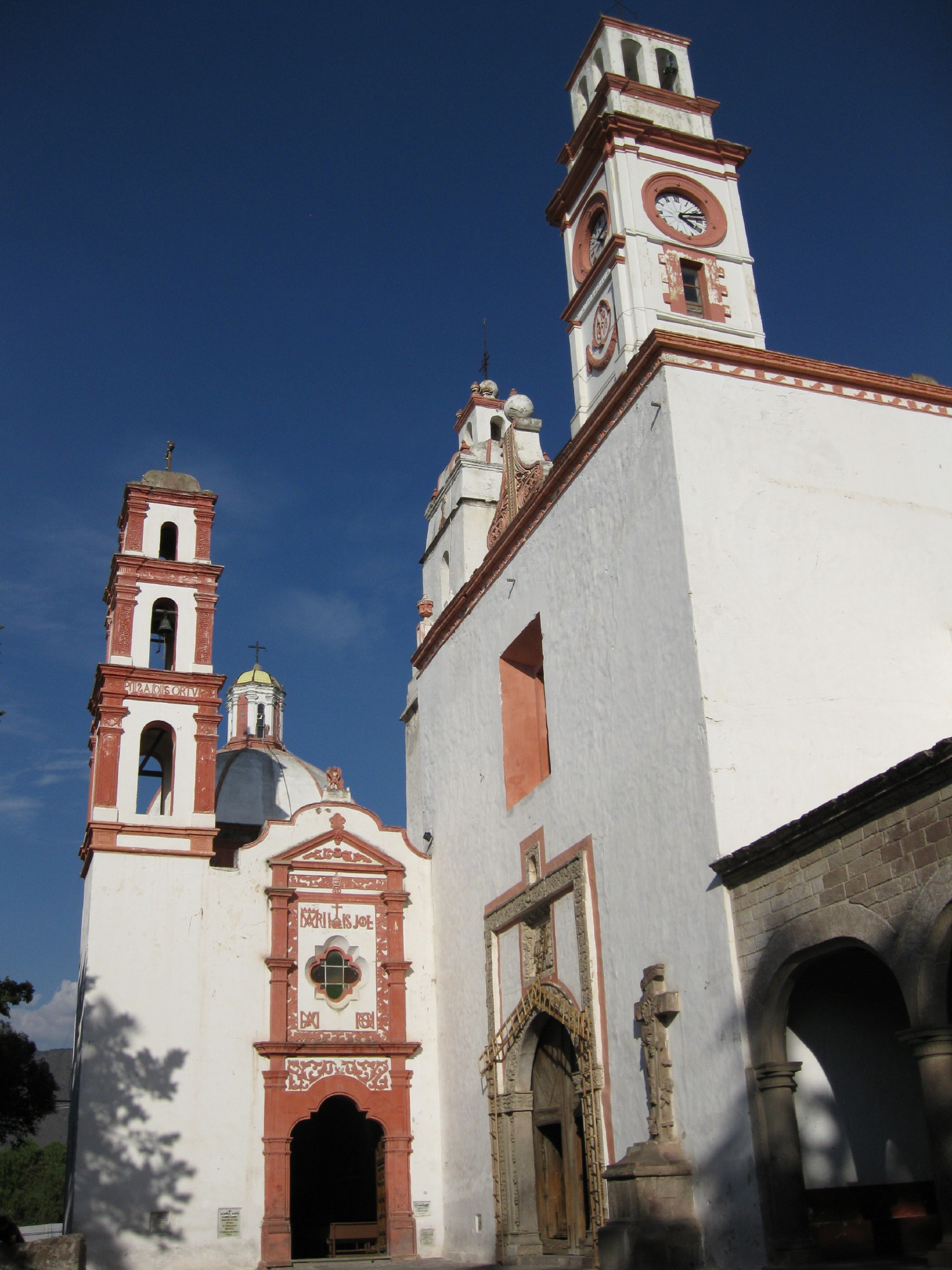 the church of Tepeapulco